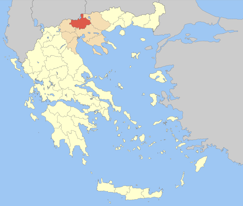 Locator map of Kilkis prefecture (Νομός Κιλκίς) in Greece